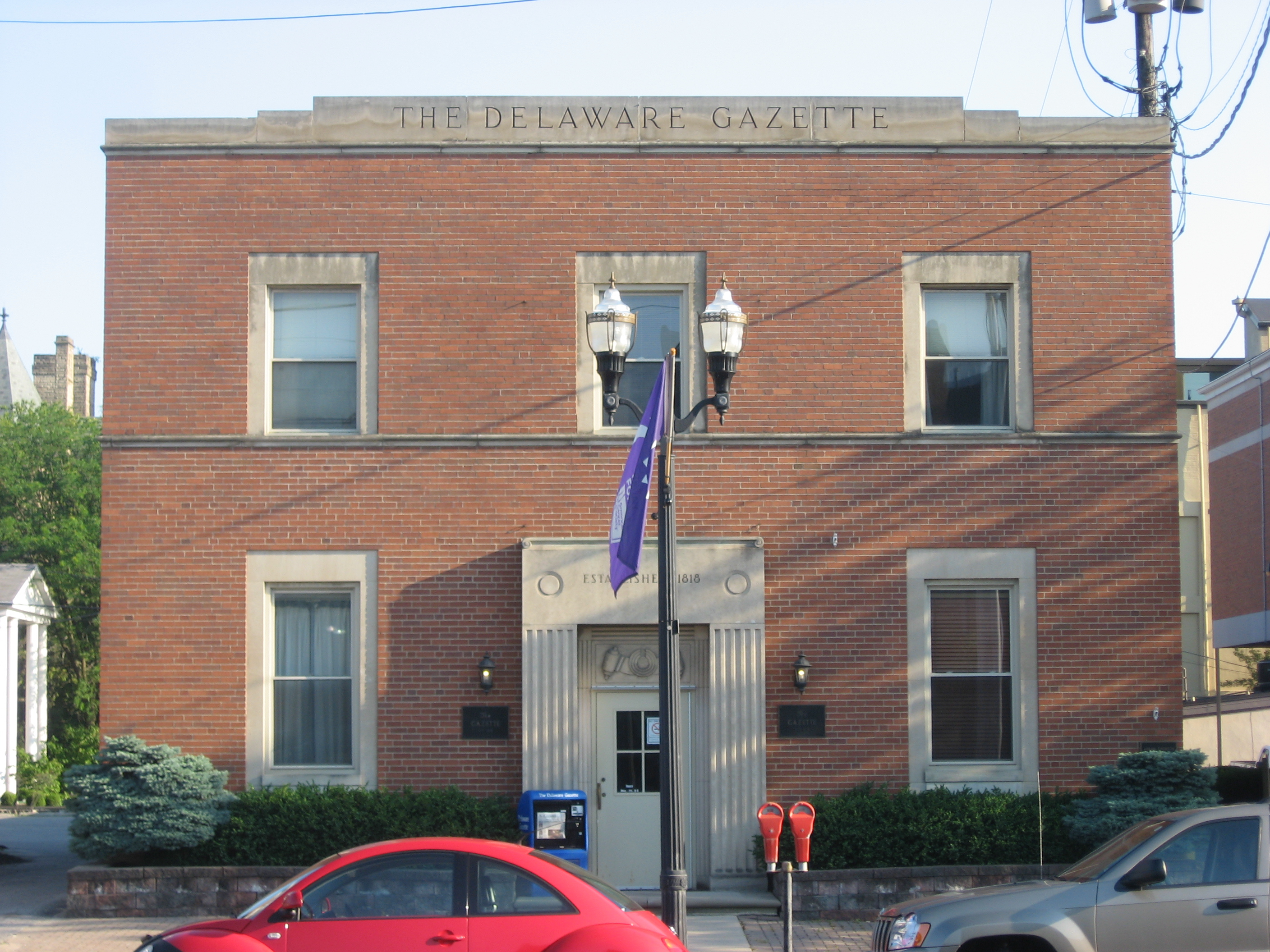 Front of the offices of the Delaware Gazette, located at 18 E. William Street (U.S. Route 36) in downtown Delaware, Ohio, United States.